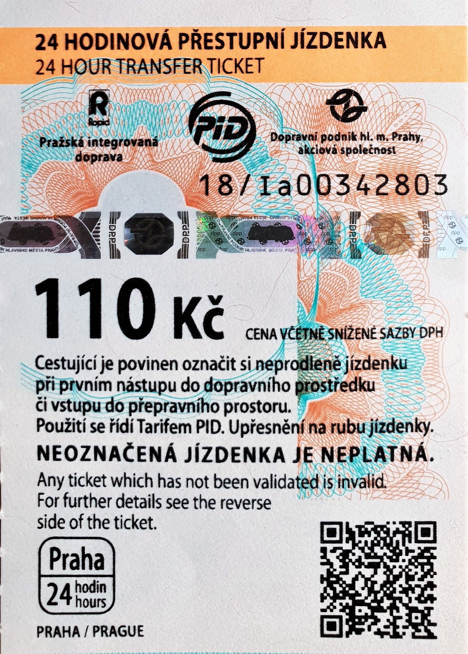 24 Hour Transfer Ticket of Pražská integrovaná doprava (PID) (Prague Integrated Transport) and Dopravní podnik hlavního města Prahy (DPP) in Prague in July 2018. Price: 110 Kč